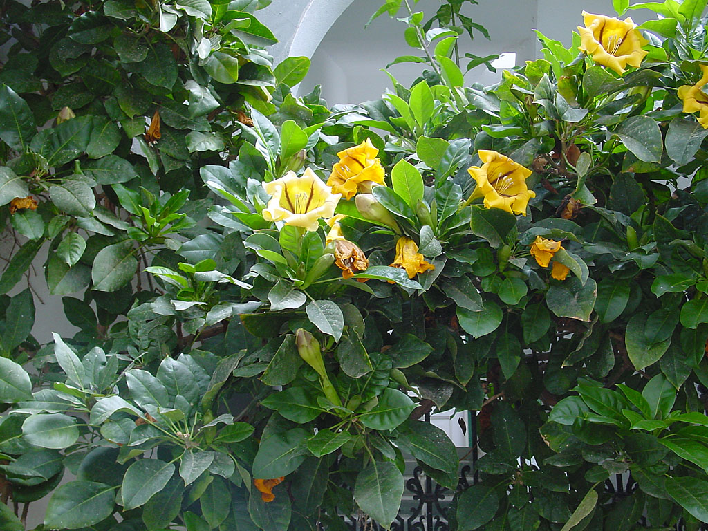 Golden Chalice Vine, Cup of Gold or Hawaiian Lily. Photo taken in Gran Canaria